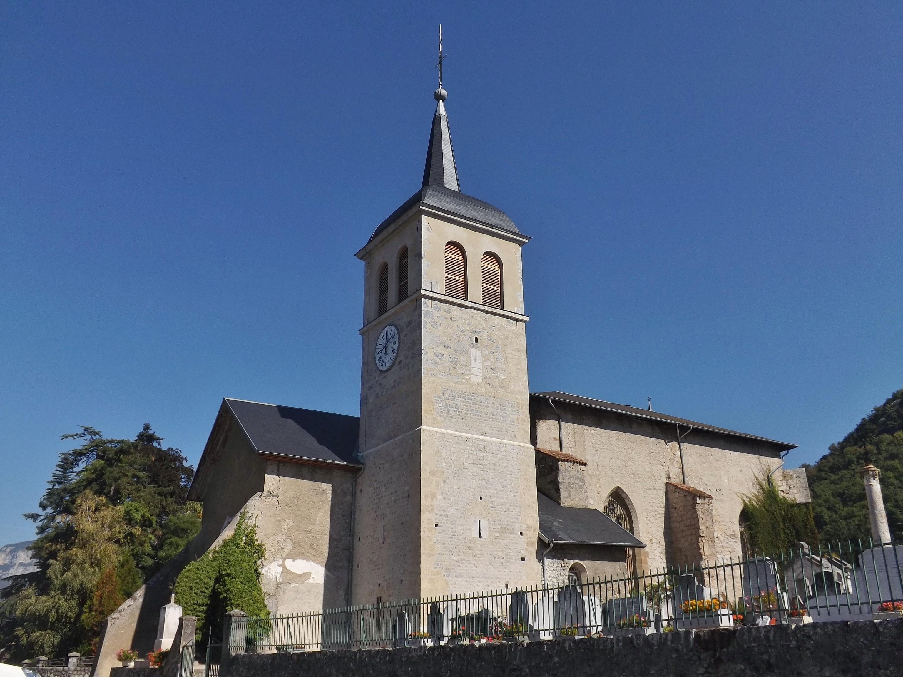 Sight of the église Saint-Georges du Prieuré church, on the French commune of Saint-Jeoire-Prieuré, near Chambéry, in Savoie.